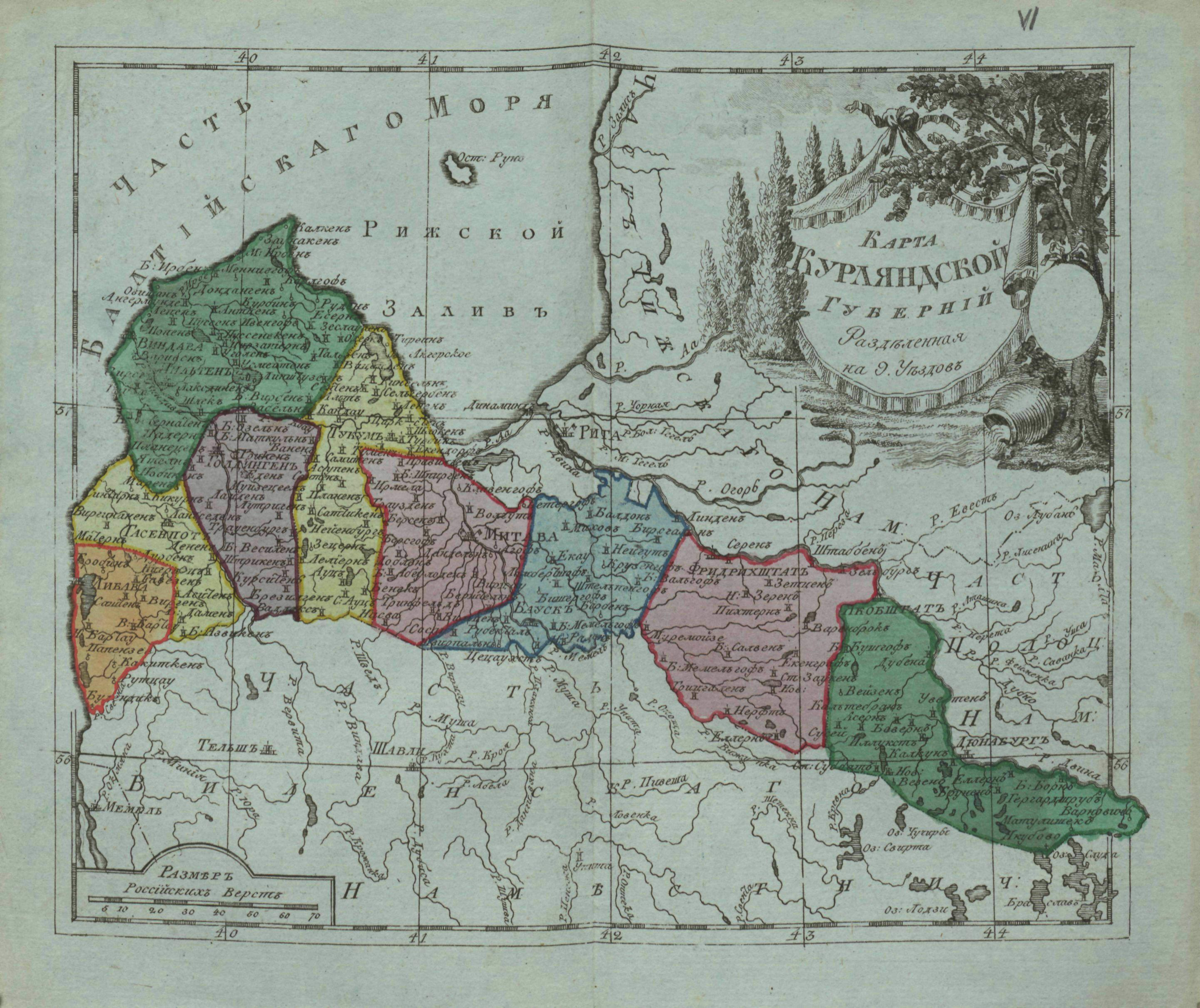 Small atlas of the Russian Empire (1796). Map of Courland Governorate (map 6).